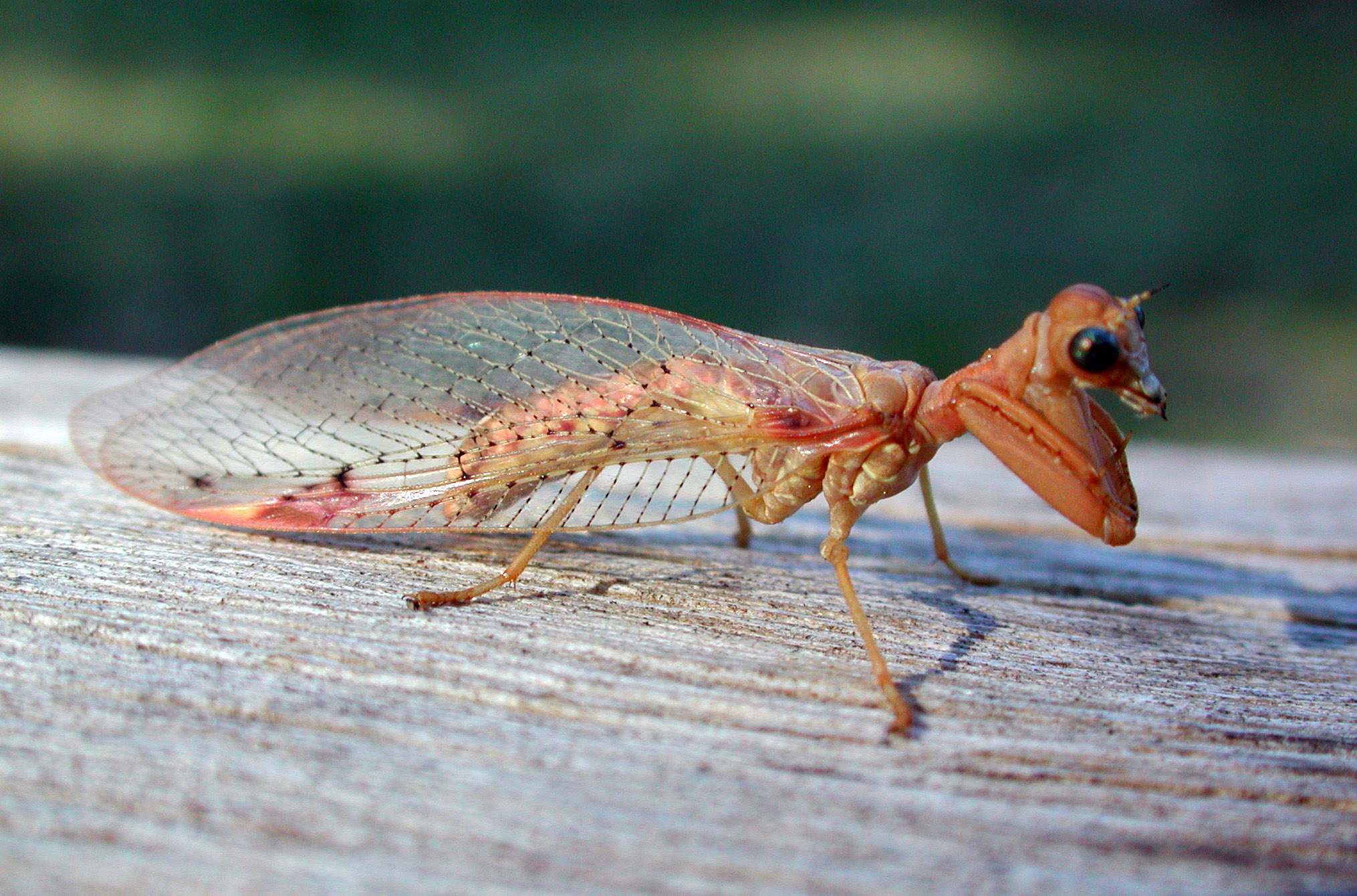 Mantispidae, Ditaxis biseriata (det. Hauser, 2006), Carnarvon National Park, Queensland, Australia